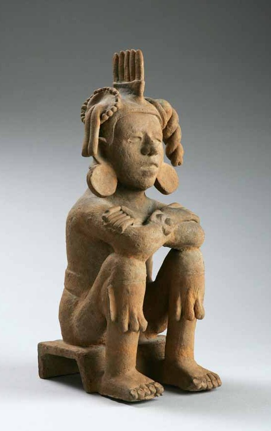 Xochipilli, Aztec God of dance and music, 900-1500 A.D.